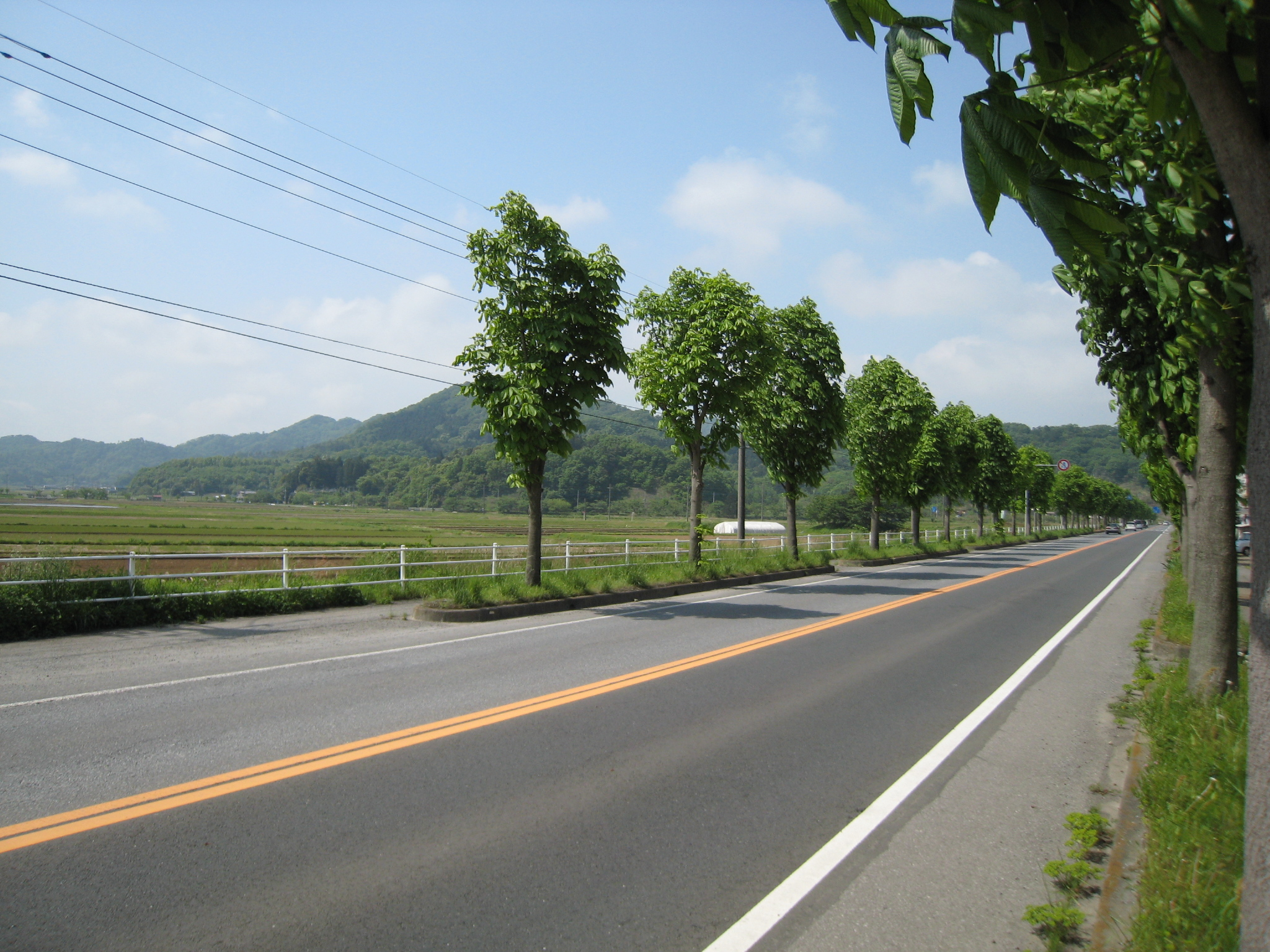 Route 293 at Akami-cho in Ashikaga, Tochigi Prefecture,Japan